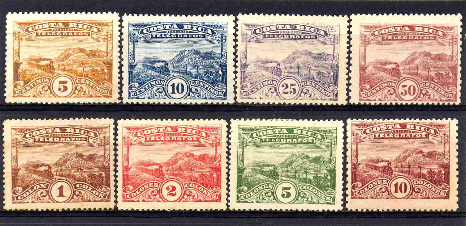 1907 telegraph stamps of Costa Rica.